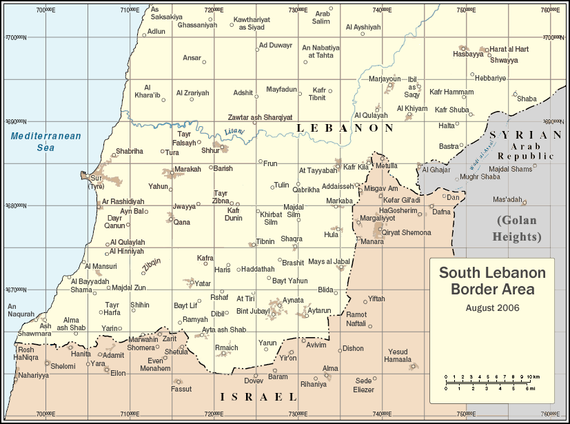 By ChrisO, adapted from